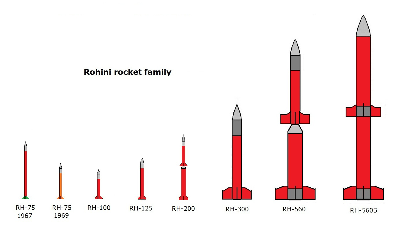 Rohini rockets family shapes.